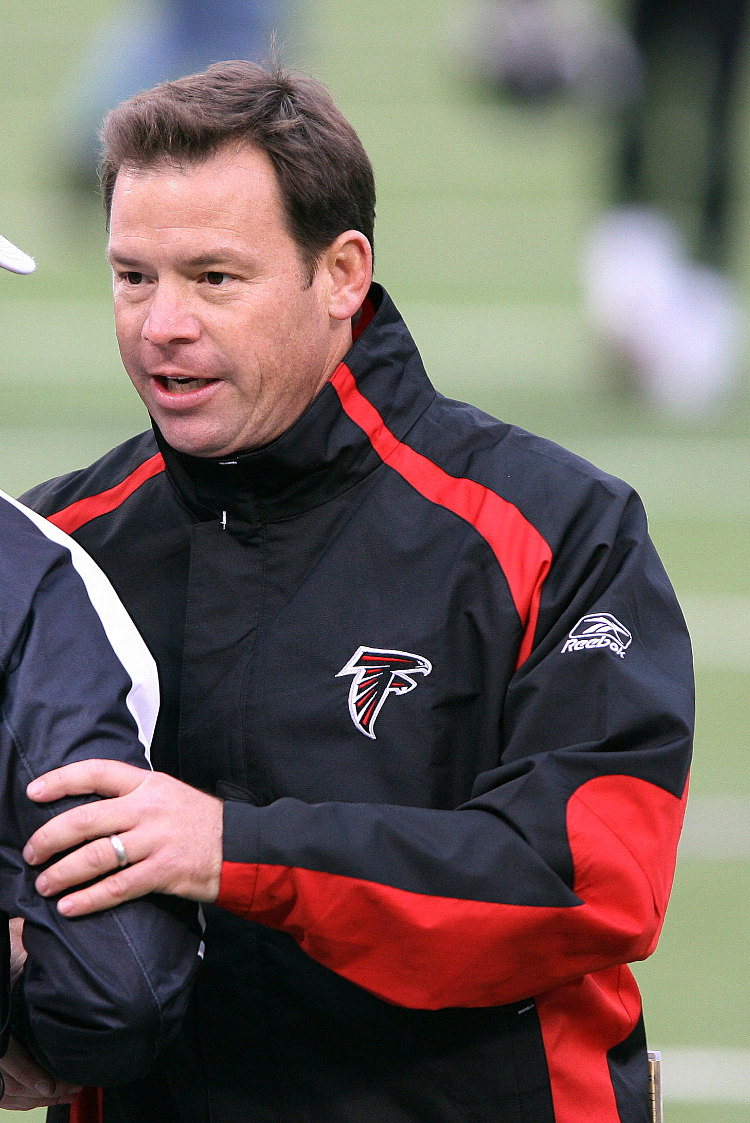 Jim L. Mora, head coach of the American football team Atlanta Falcons (at time of photo)